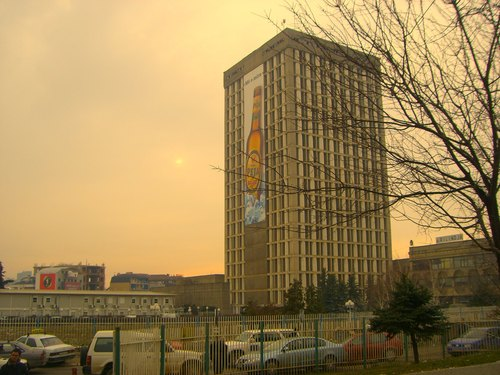 The building of former "Rilindja" newspaper ,also currently the tallest in Prishtina